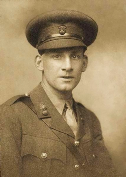 Siegfried Loraine Sassoon (1886-1967), poet and novelist, platinum print, wearing military uniform with the collar badges of the Royal Welsh Fusiliers and hat, Beresford's stamp and copyright line on verso, 6 x 4½ in (15.2 x 11.5 cm).